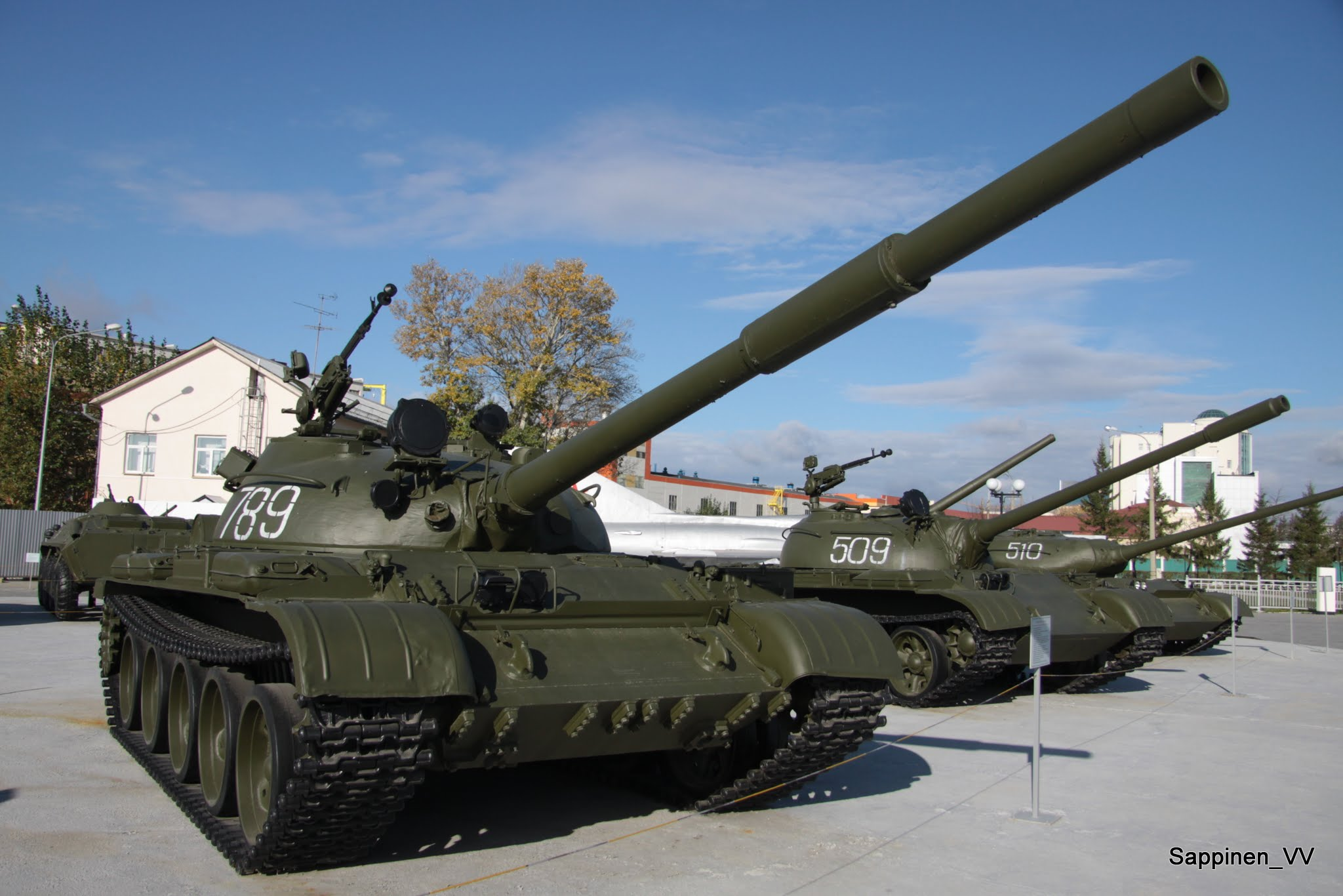 Verkhnyaya Pyshma Tank Museum 2012